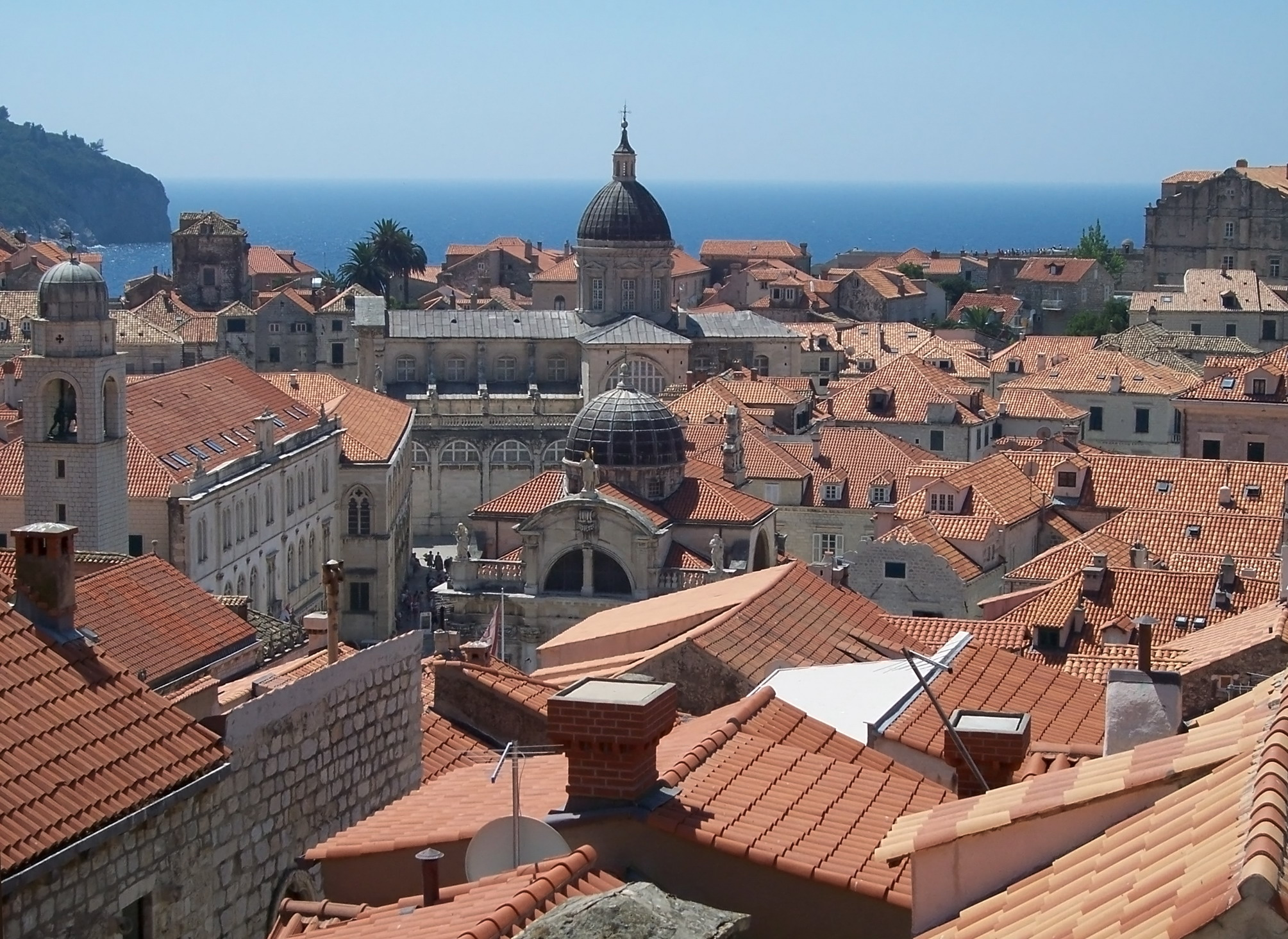 View on Dubrovnik (Croatia).